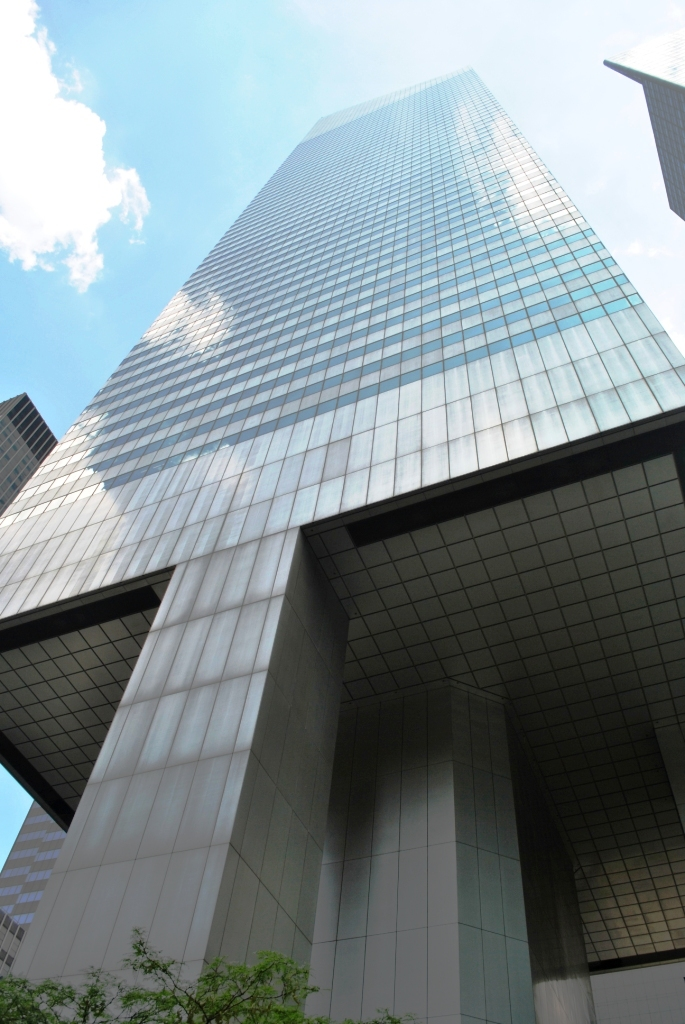 Citigroup Center